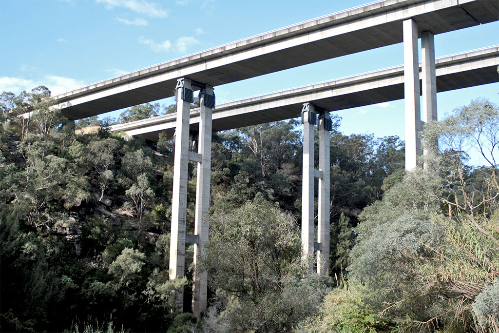 The Douglas Park Bridge over the Nepean River, east of the town of Douglas Park, NSW, Australia.